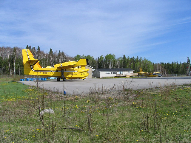 A water bomber parked at the Chapleau Municipal Airport.